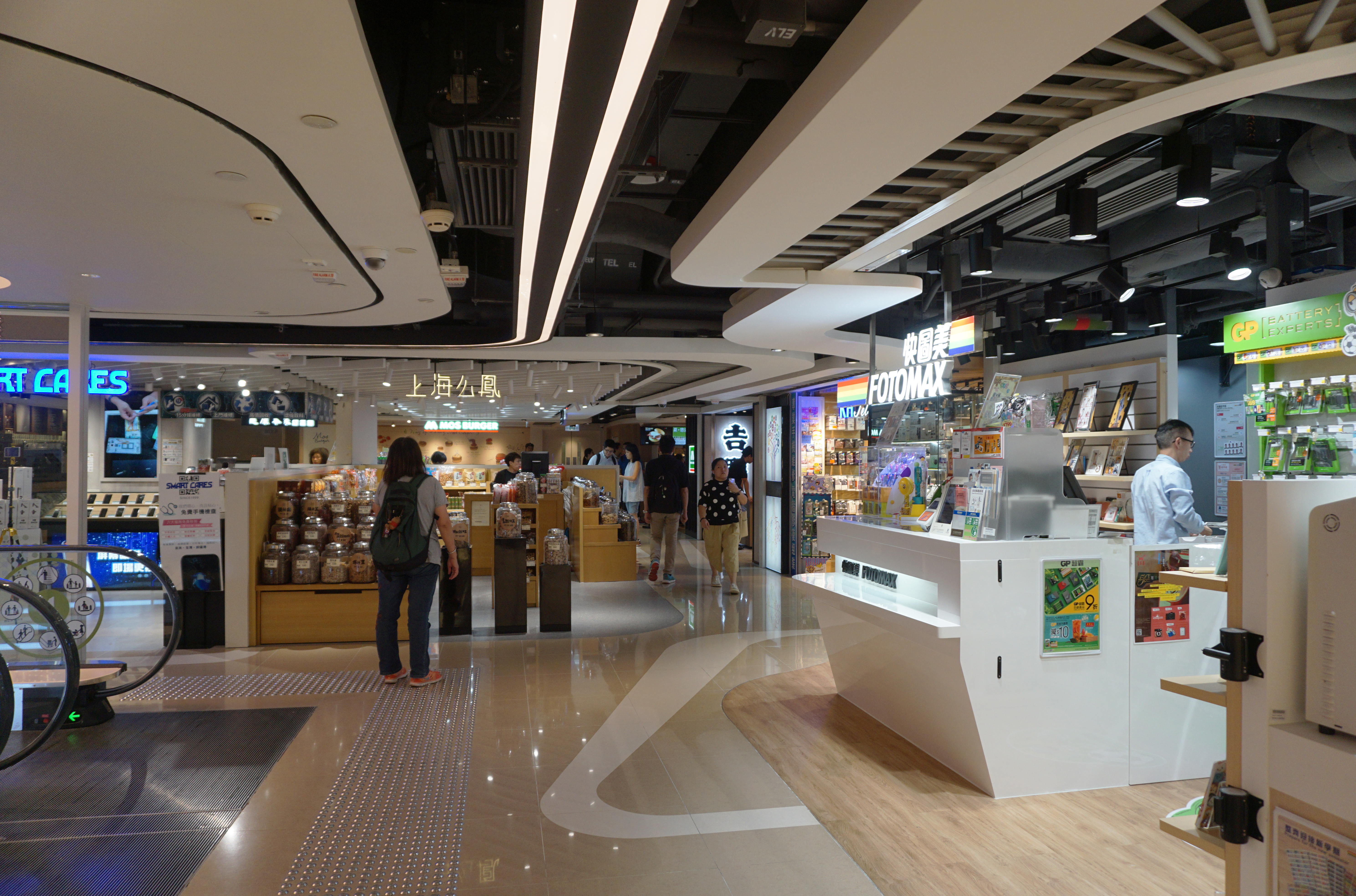 Life@KCC in Kwai Hing, Hong Kong.